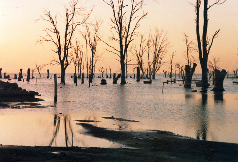 Mar Chiquita, Córdoba, Argentina after flooding.